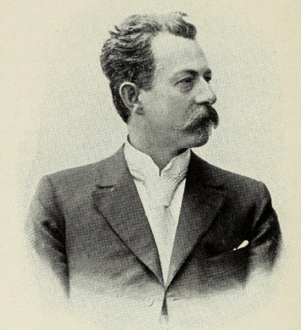 Hugo Jäger, German violoncello player, 19th century